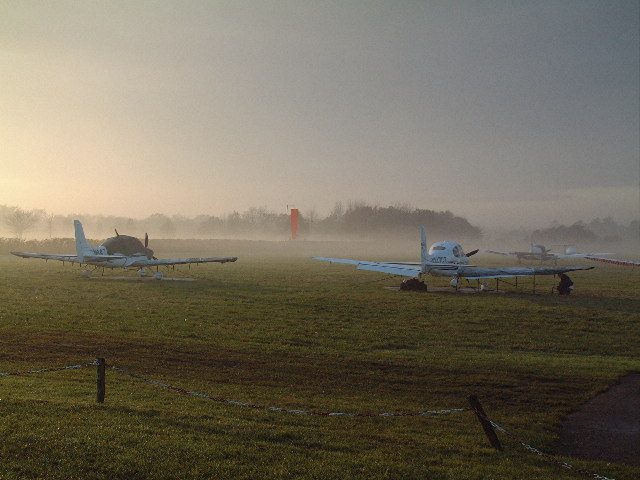 Denham Aerodrome Windsock. The windsock hangs limp in the still air. Also at the airfield are the Denham School of Flying and the Biggles Restaurant.